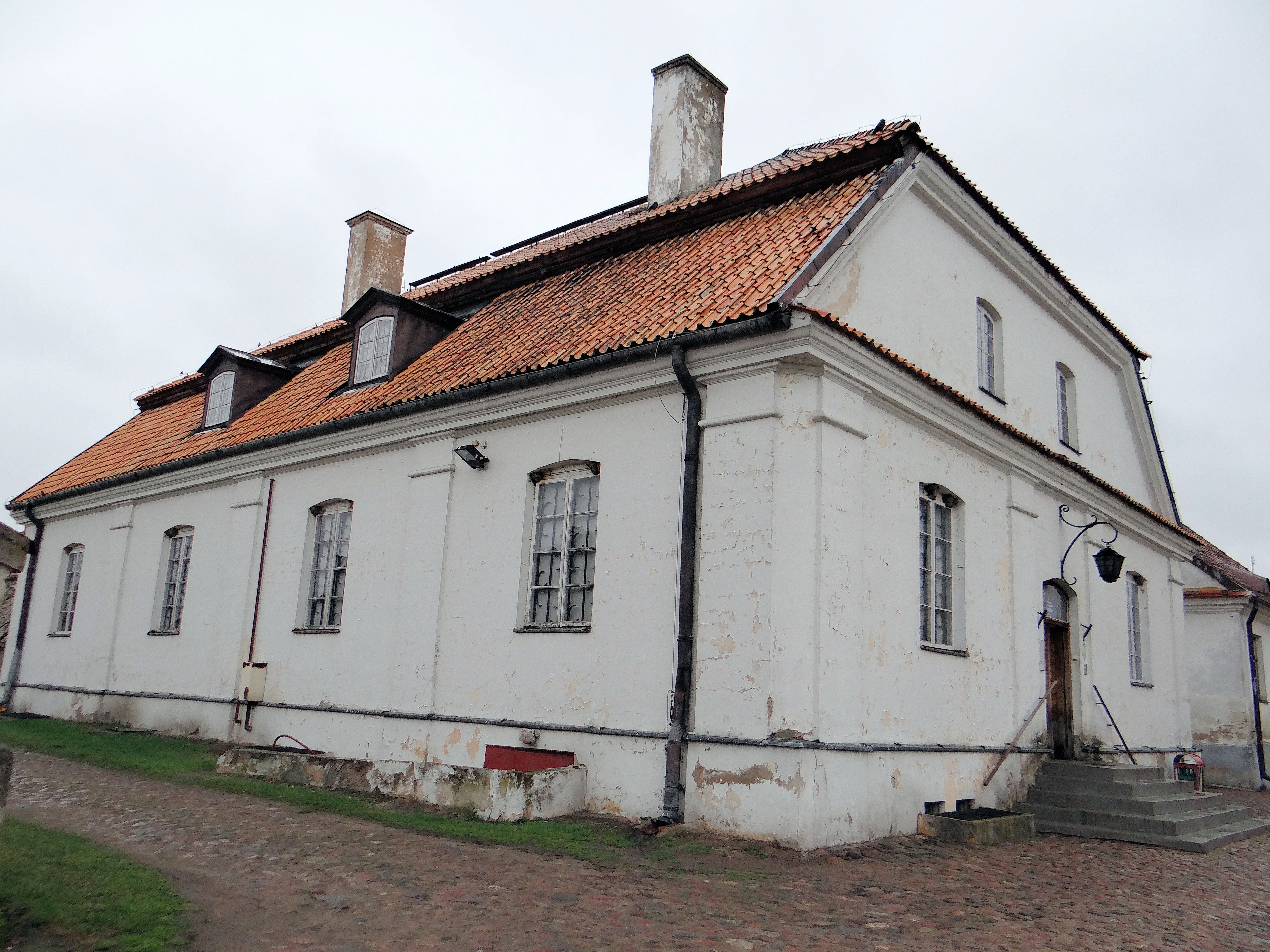 Small Synagogue in Tykocin (museum)